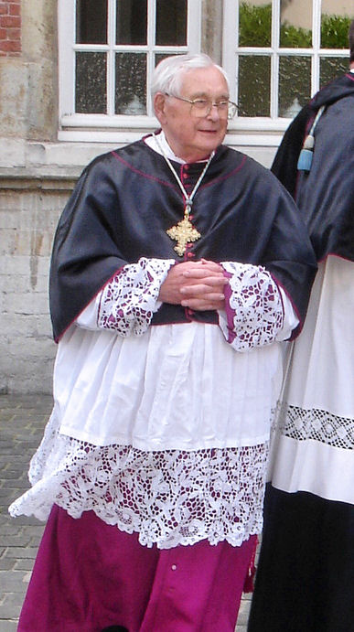 Monsignor Alfred Vanneste (1922–2014), Canon and Honorary Prelate in Bruges